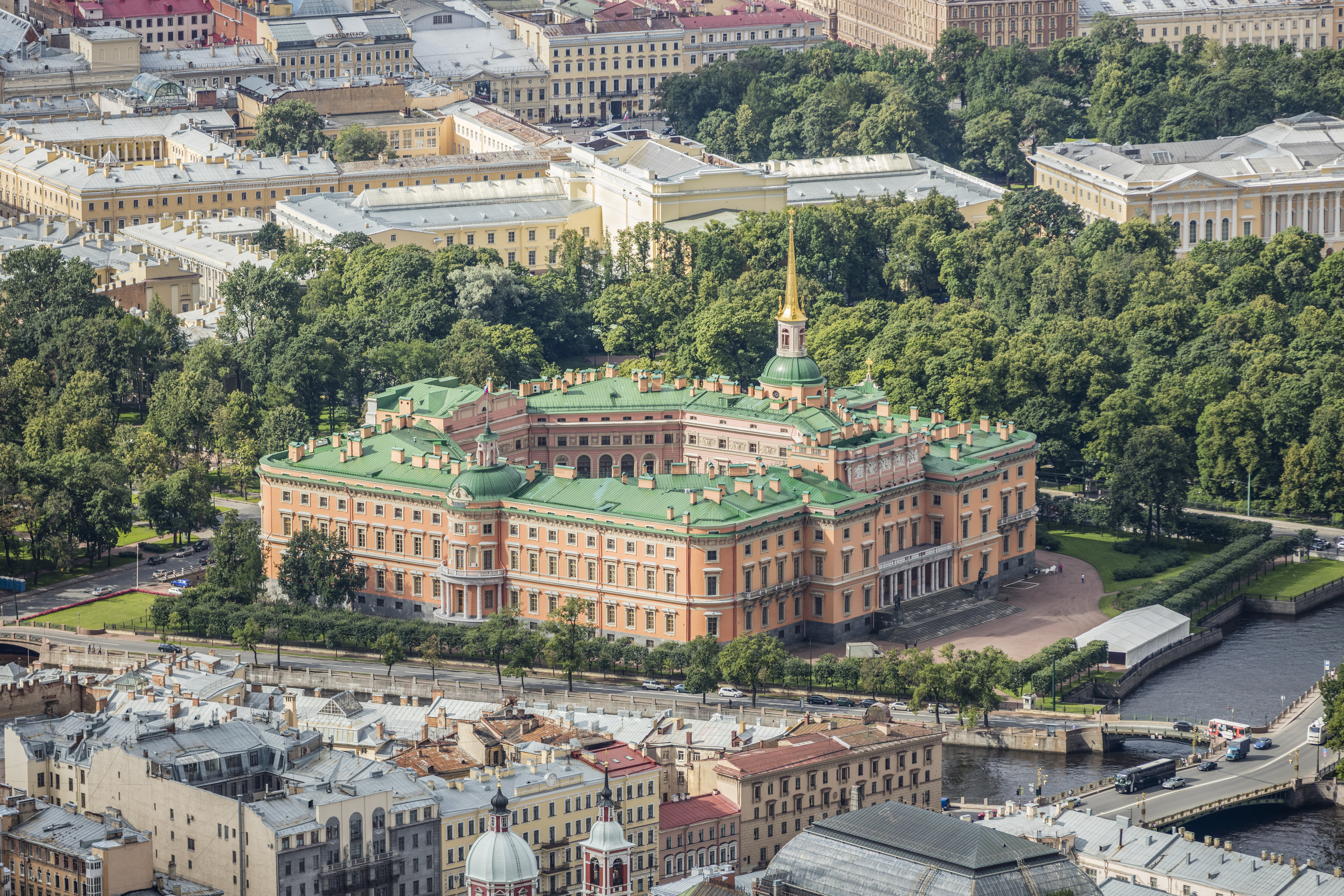 An aerial view of St. Michael's Castle (Миха́йловский за́мок, Mikhailovsky zamok), also called the Mikhailovsky Castle in the center of Saint Petersburg, Russia. Altitude ~1,300 feet.